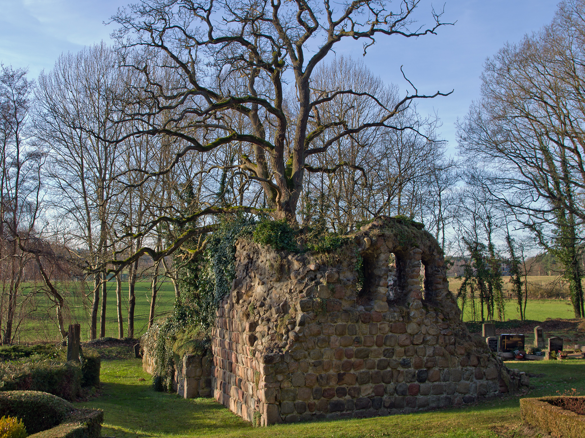 Ruin of a chapel near the small village Spithal (district Lüchow-Dannenberg, northern Germany).